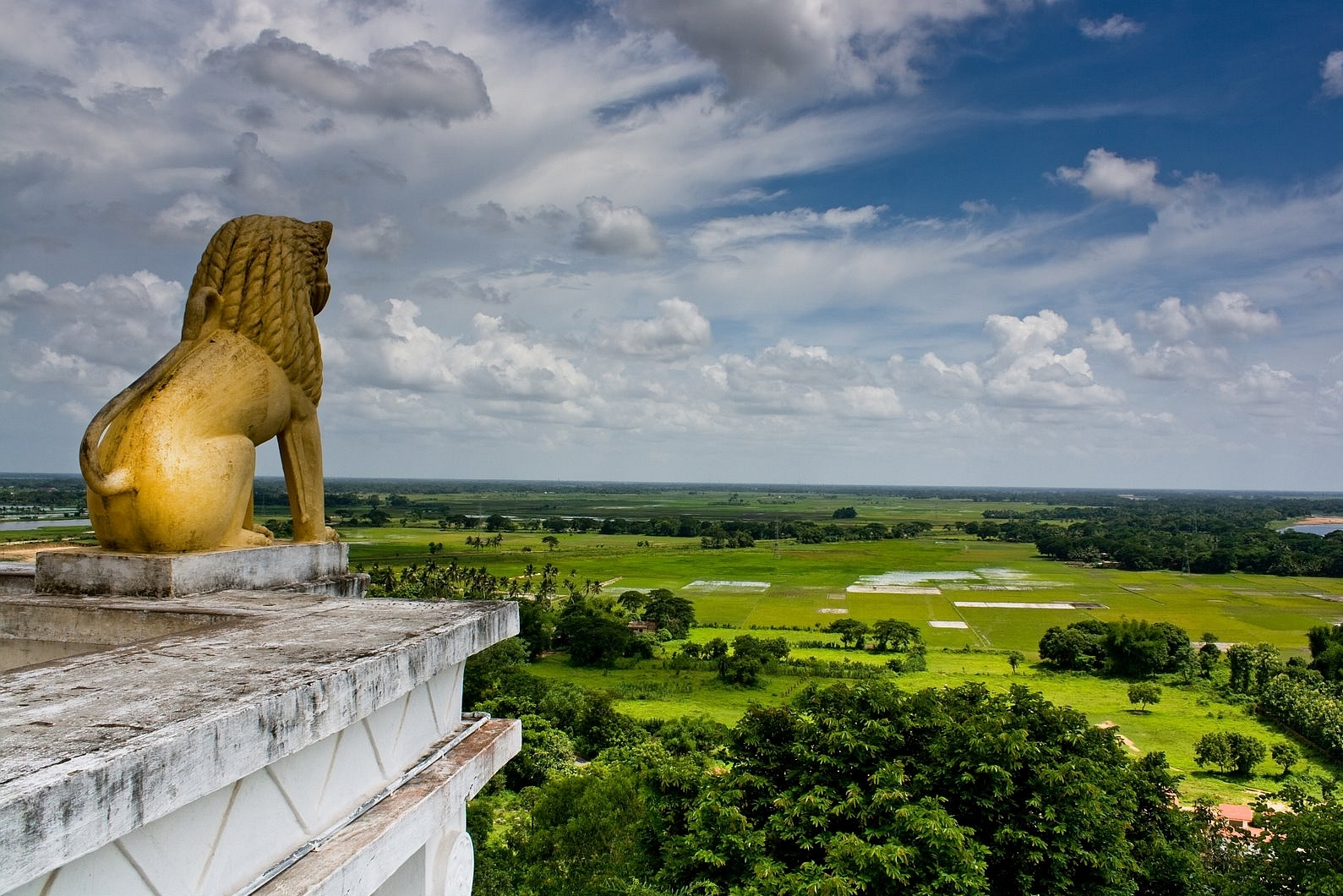 A statue of a lion, the king of the jungle, looks over the plains of Daya river from his perch atop the Dhauligiri hills in Bhubaneswar, India. The hill is famous for Ashoka’s rock edicts and a dazzling white peace pagoda. Dhauli hill is presumed to be the area where Kalinga War was fought by Ashoka.